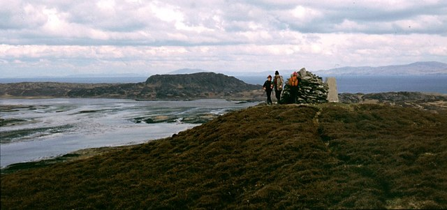 Summit of Beinn Oronsay Beinn Oronsay is the highest point on Oronsay. In this view the hill in the background is Beinn Eibhne.